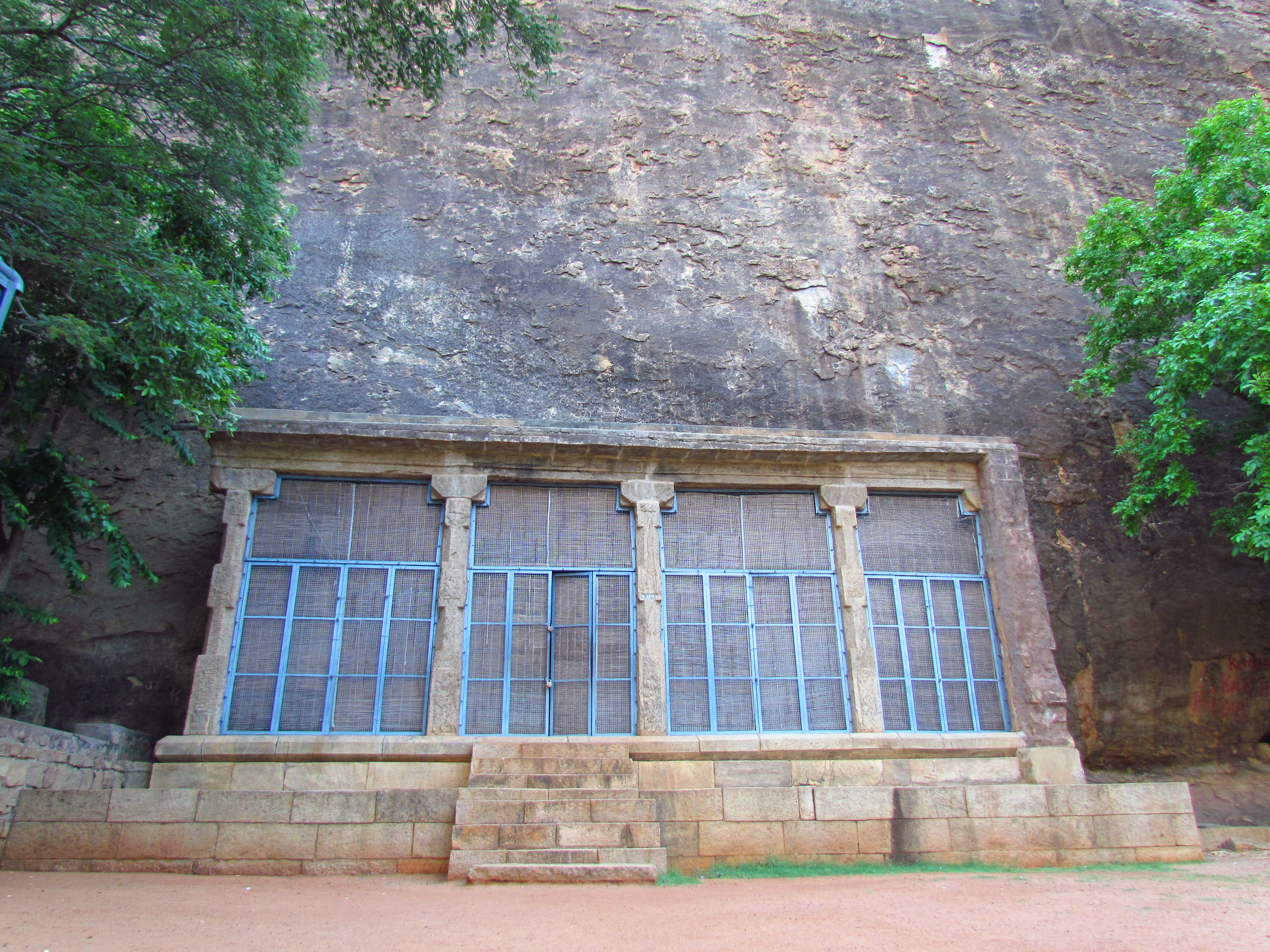 One of the most famous rock-cut monasteries of the Jains from the 7th century featuring remnants of exquisite frescoes that were painted using organic materials.